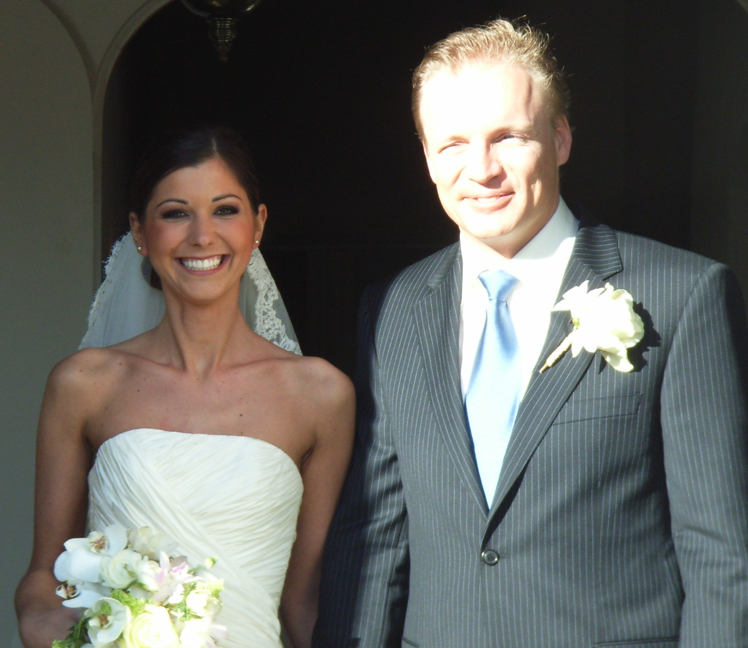 Irena Pantelic wedding. Groom: Tristan Arkesteijn.